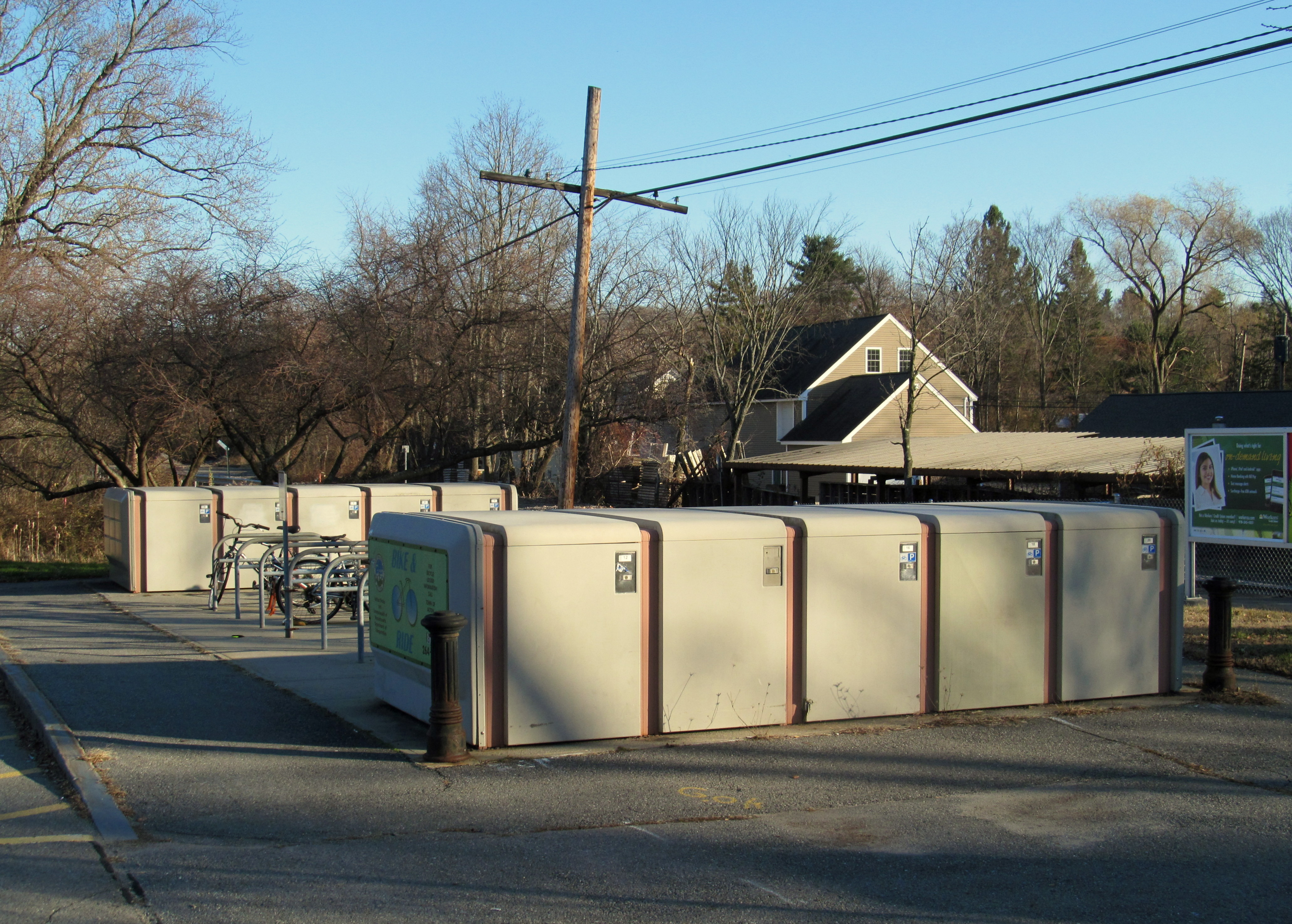 Bicycle parking area at South Acton station in 2012. These were moved slightly soon after to allow construction of the new station.